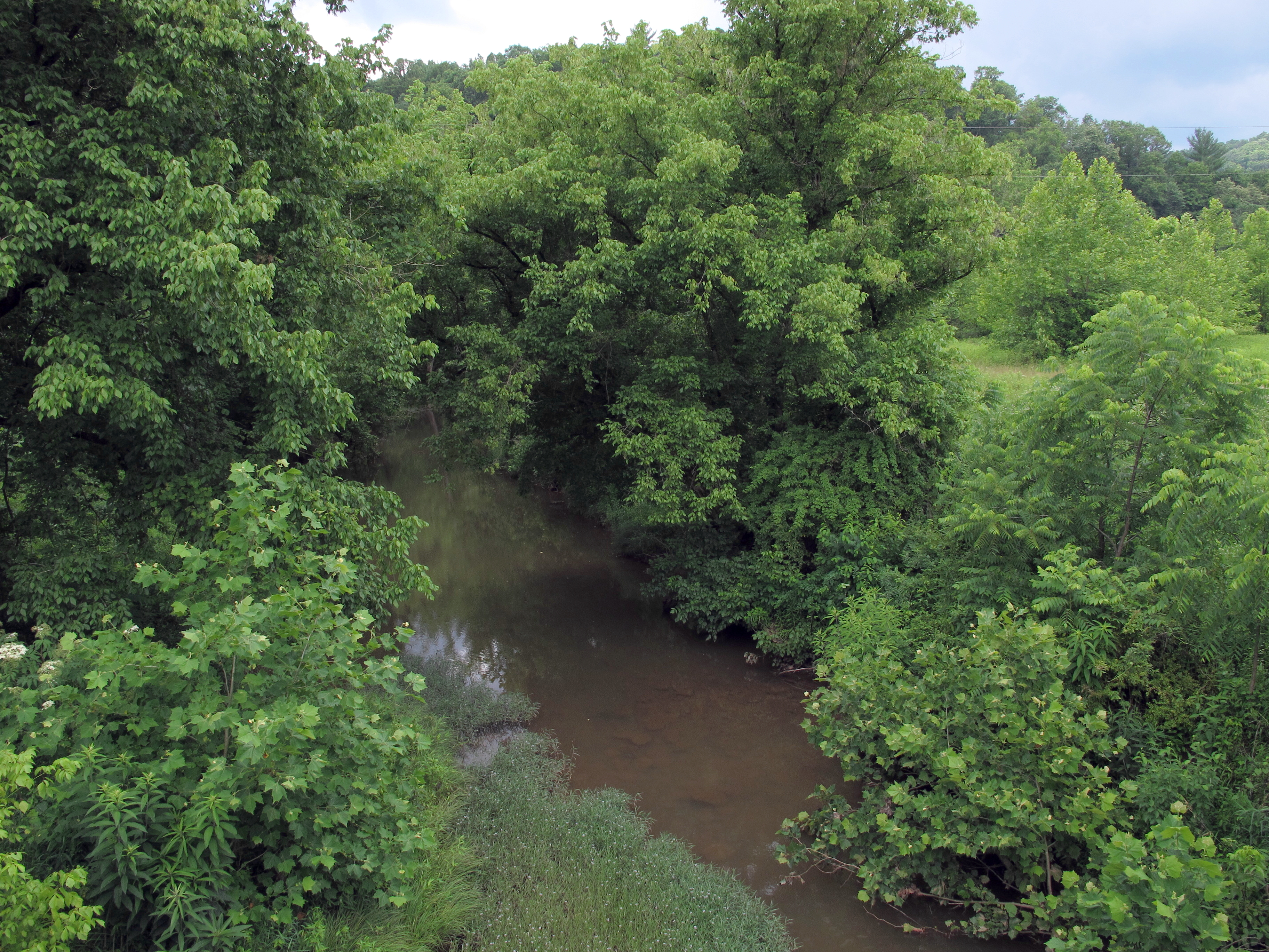 Sugar Creek as viewed downstream from (County Road 3/8) in Pleasants County, West Virginia.